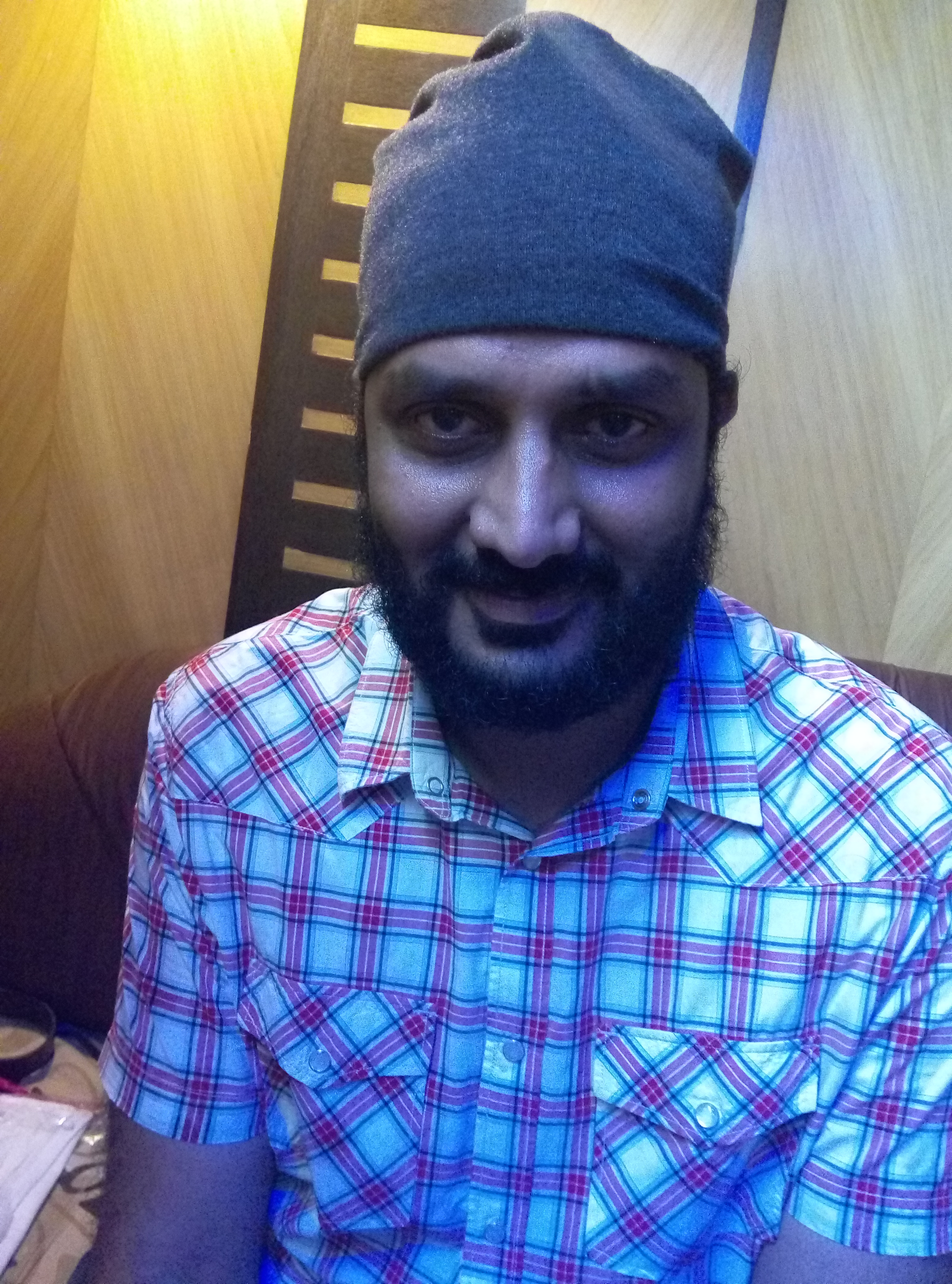 Srnivas Avasarala (director,writer, actor) -శ్రీనివాస్ అవసరాల భారతీయ నటుడు, దర్శకుడు, సినిమా స్క్రిప్ట్ రచయిత